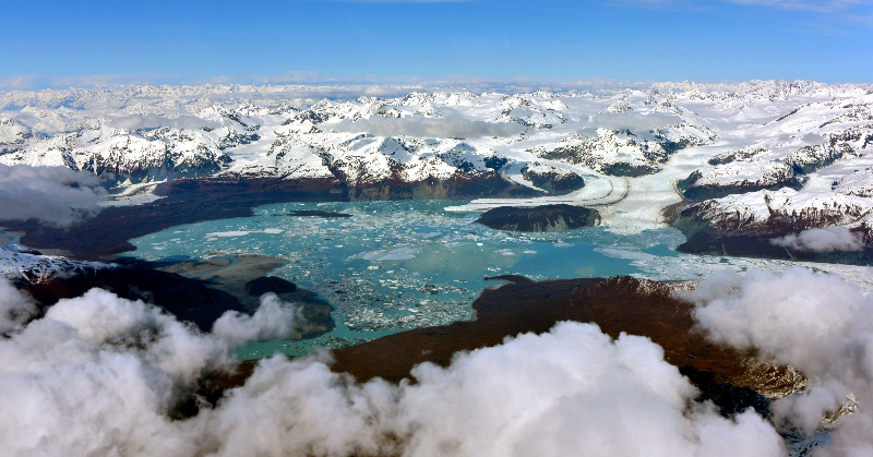 Alsek Lake, Alsek Glacier, Alsek River, aerial